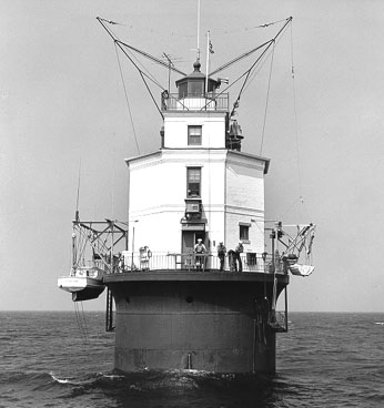 Undated United States Coast Guard photograph of Smith Point Light (original here) cropped and converted to PNG format